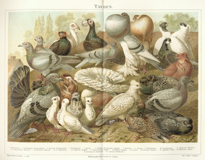 doves